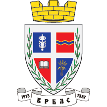 Srednji grb Vrbasa